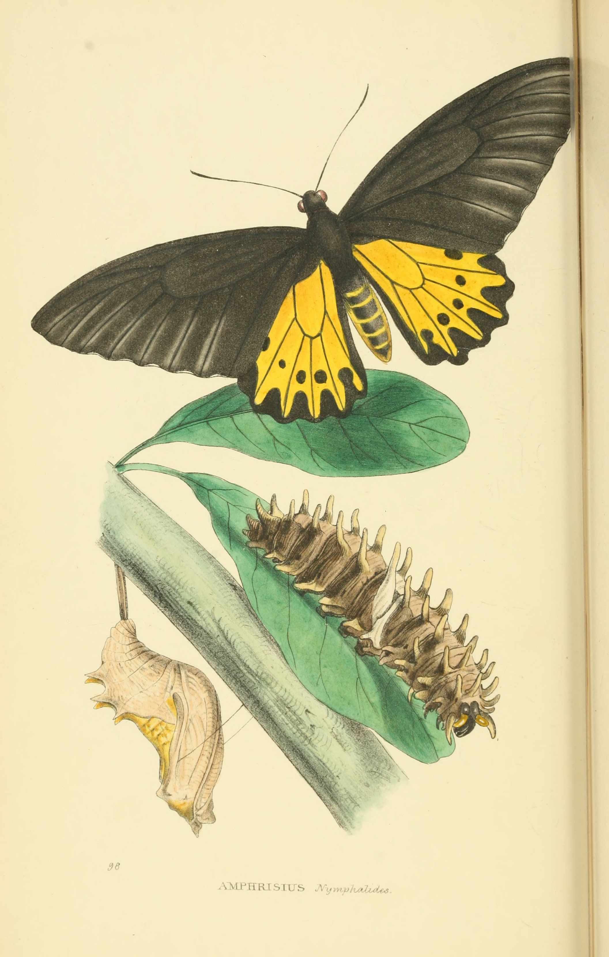 Plate from Zoological illustrations, Volume 3, 2nd series. Amphrisius Nymphalides = Papilio Amphrisius Godart. Accepted as Troides helena[1]